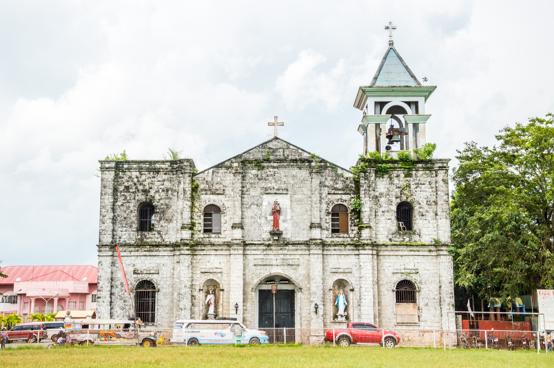 View of the church from the famous football field